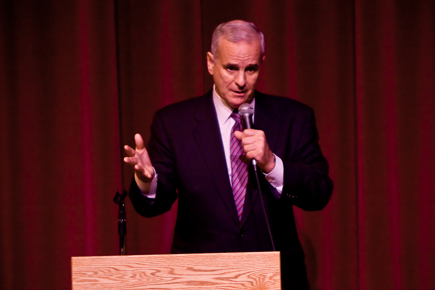 Former U.S. Senator Mark Dayton answers a question before an audience at the Minnesota DFL Gubernatorial Debate at the Hopkins Center for the Performing Arts on Tuesday, November 24, 2009.